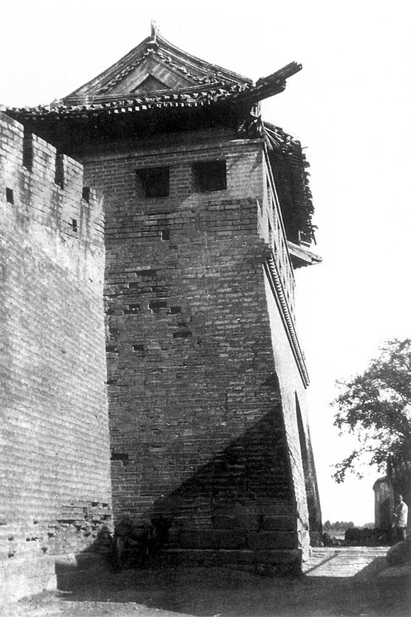 Guangqumen Archery Tower